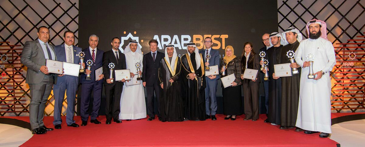 صورة جماعية للفائزين بجوائز الاعمال في حفل -جائزة أفضل العرب